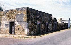 Los Caminos del Rio, Lower Rio Grande Valley, Texas Jesus Treviño Fort, San Ygnacio, TX credit: Mario Sánchez